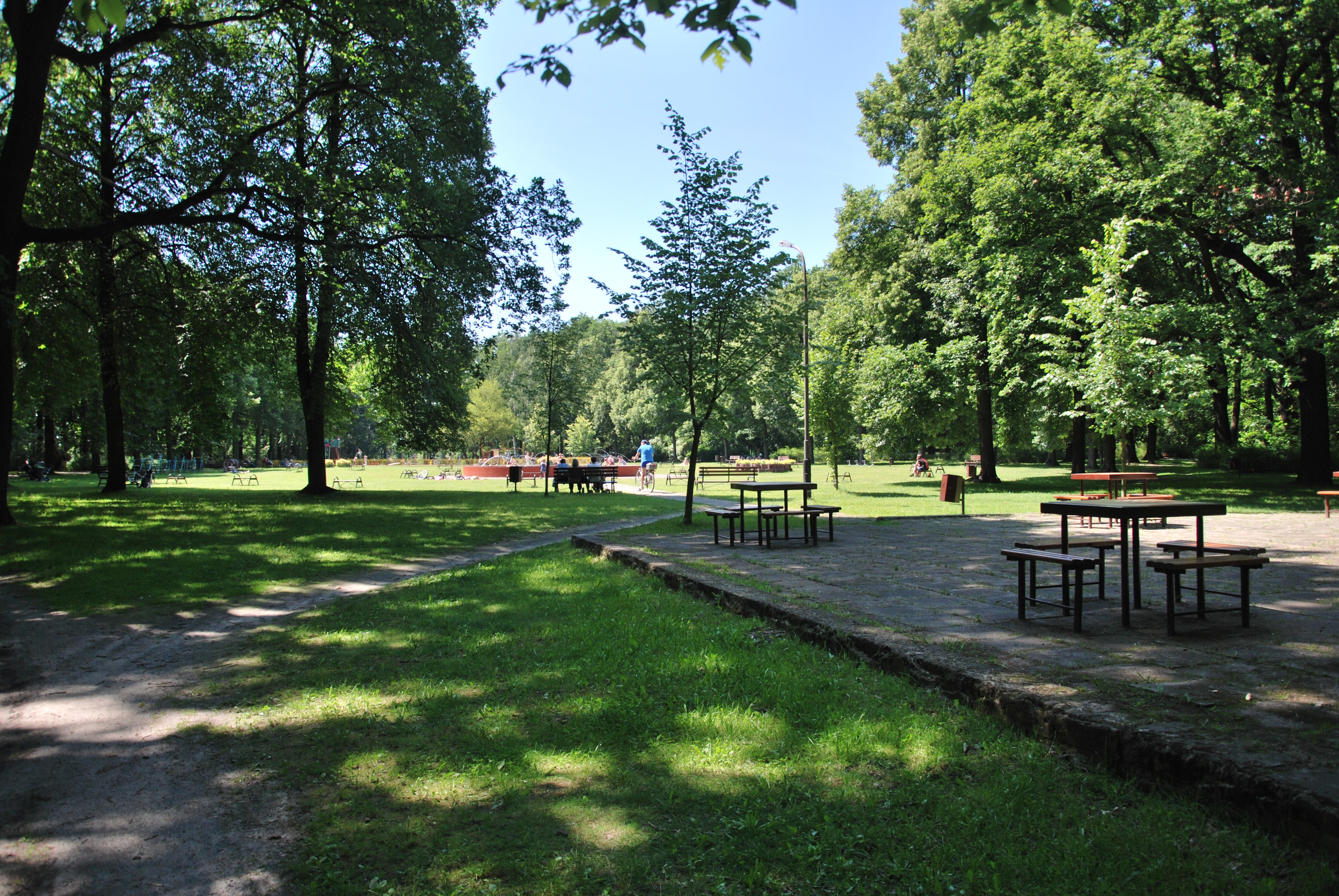 Park 3 Maja in Łódź